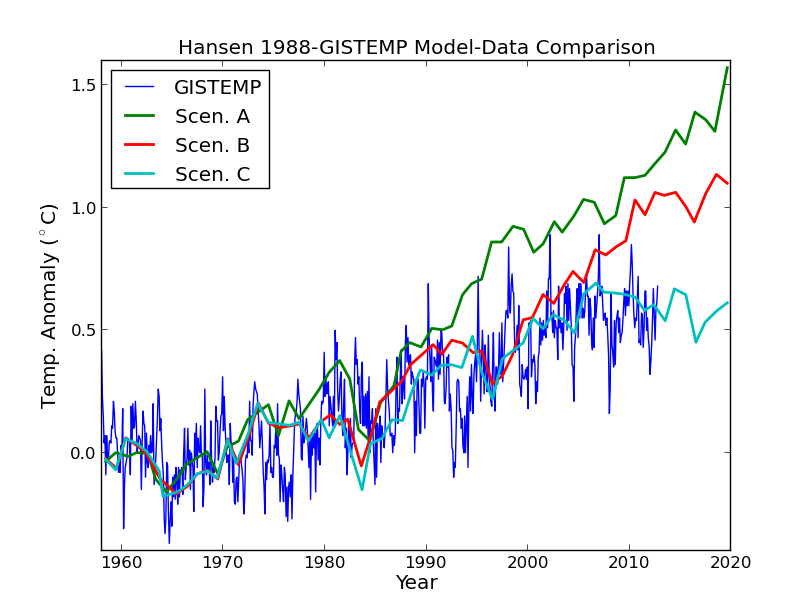 Comparison of GISTEMP temperature series to the projections of Hansen et al. 1988 (specifically, the upper part of figure 3). GISTEMP data downloaded from Wood for Trees on 23 Nov. 2012. Notes Did not alter any baselines. "Observed" data in Paper matches well to smoothed GISTEMP. Sensitivity used in paper is 4.2 deg C/doubling. Current literature value is more like 3.0, leading to overestimates Sc. A - trace gas emission continues to increase at the rates of the 70s and 80s. Also includes trends in minor trace gases such as fluorides and ozone not included in the other scenarios. Sc. B - trace gas emission rate increases, but at a lower rate than in scenario A Sc. C - trace gas emissions decrease until 2000, when the net climate forcing ceases to increase Ref: Hansen, J., I. Fung, A. Lacis, D. Rind, Lebedeff, R. Ruedy, G. Russell, and P. Stone, 1988: Global climate changes as forecast by Goddard Institute for Space Studies three-dimensional model. J. Geophys. Res., 93, 9341-9364, Please note that the study is also released by NASA for free downloading: here